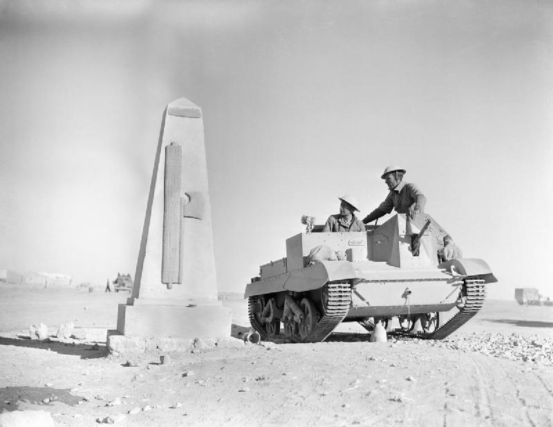 The crew of a Bren gun carrier pause to look at a monument erected by the Italians to commemorate the capture of Sidi Barrani in Egypt a few months earlier, 16 December 1940. The crew of a Bren gun carrier pause on their way to the forward area in the Western Desert to look at a monument erected by the Italians to commemorate the capture of Sidi Barrani a few months previous, 16 December 1940.